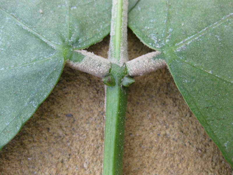 Leaves of this Erythrina have two prickles on both sides of the petiole.